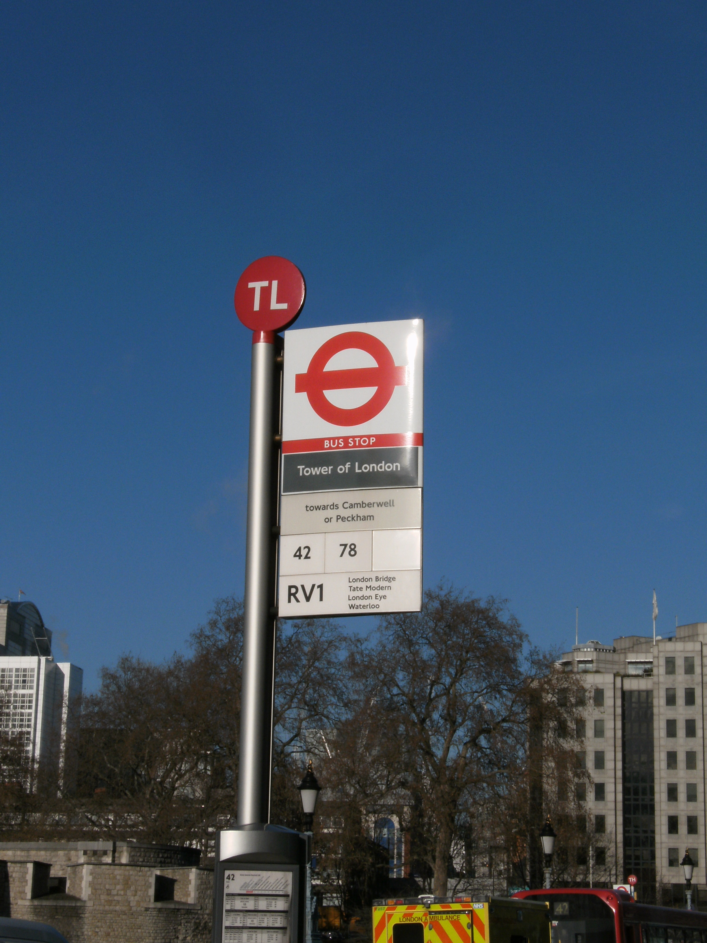 Bus stop at the Tower of London.